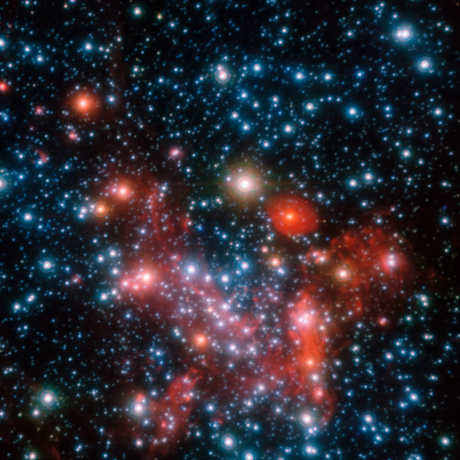 The central parts of our Galaxy, the Milky Way, as observed in the near-infrared with the NACO instrument on ESO's Very Large Telescope. By following the motions of the most central stars over more than 16 years, astronomers were able to determine the mass of the supermassive black hole that lurks there.